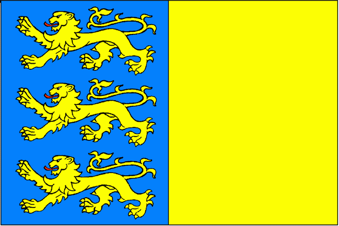 Flag of Zhydachiv raion